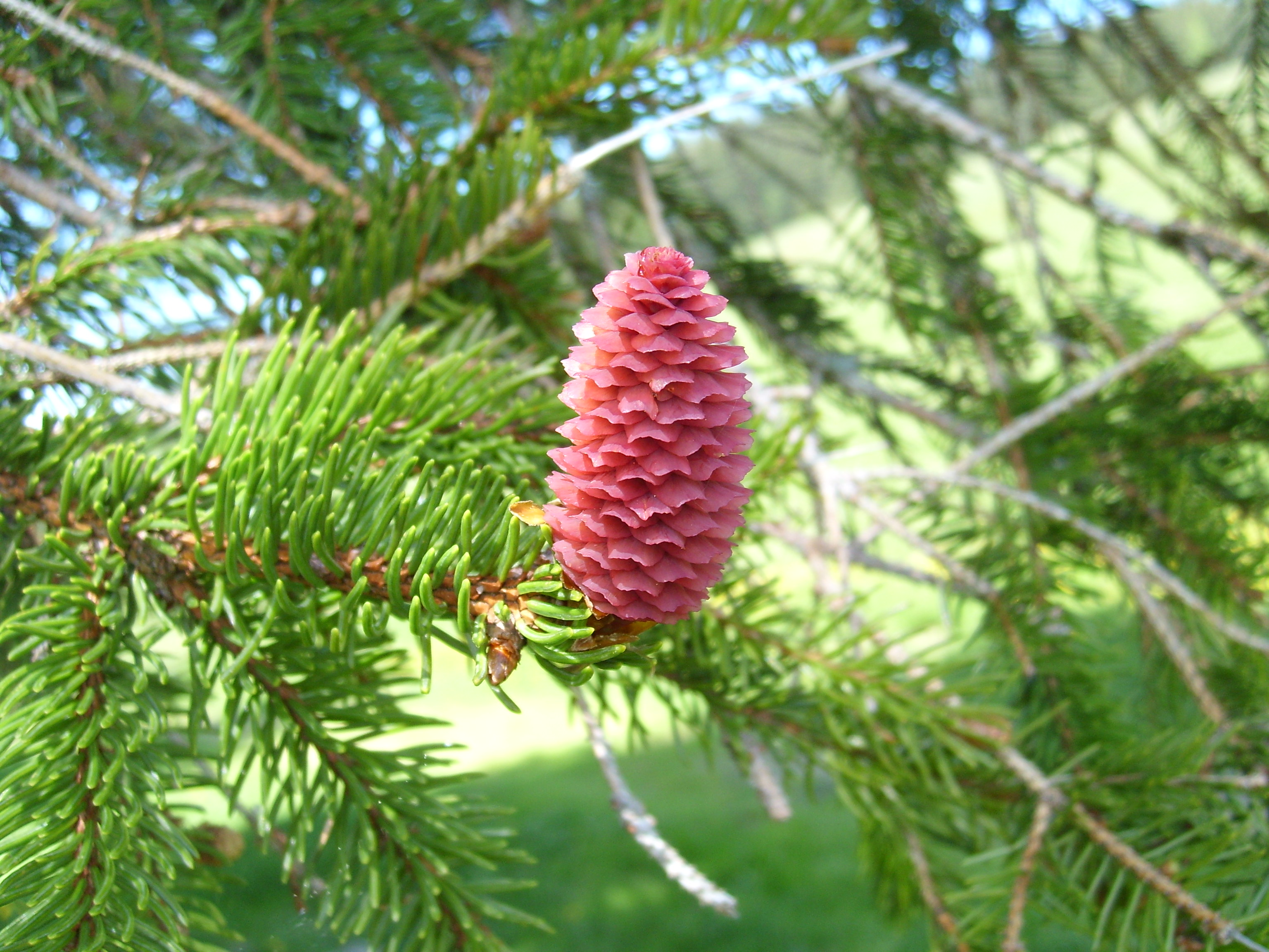 female cone/flower of Picea abies